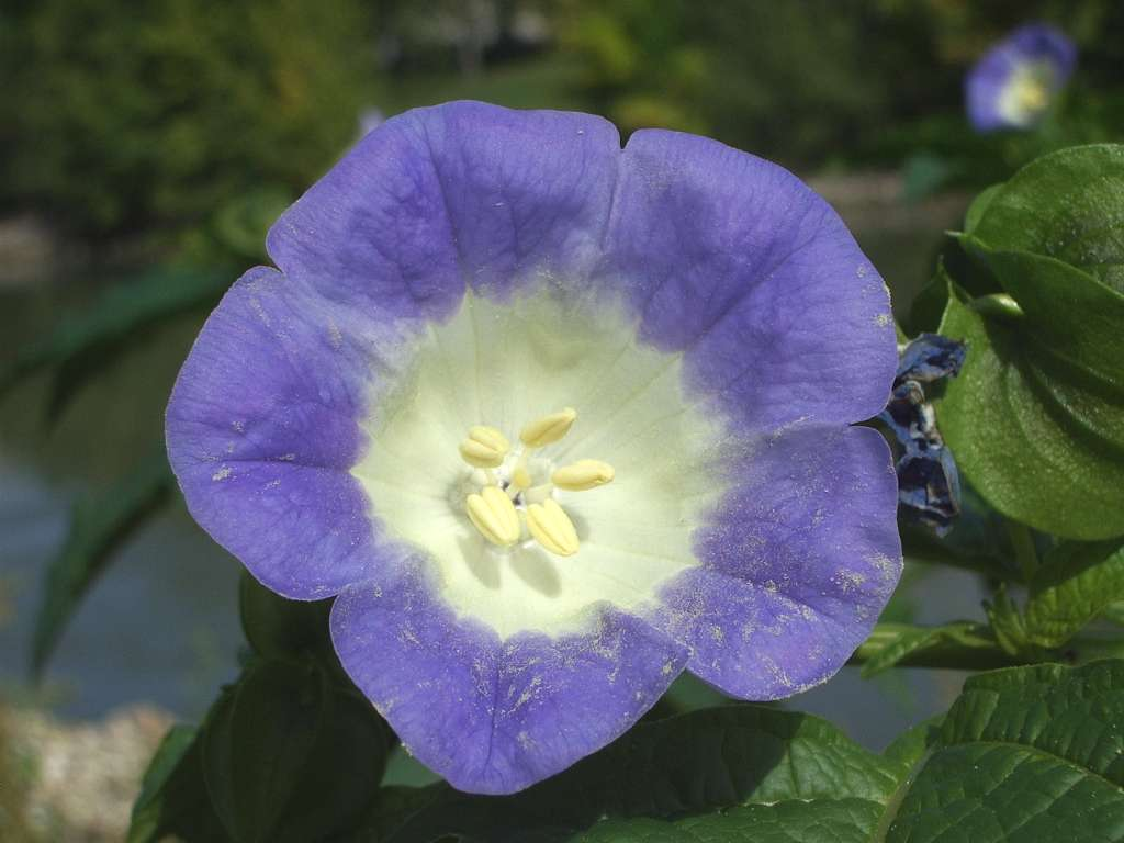 Close-up of a Nicandra physalodes flower